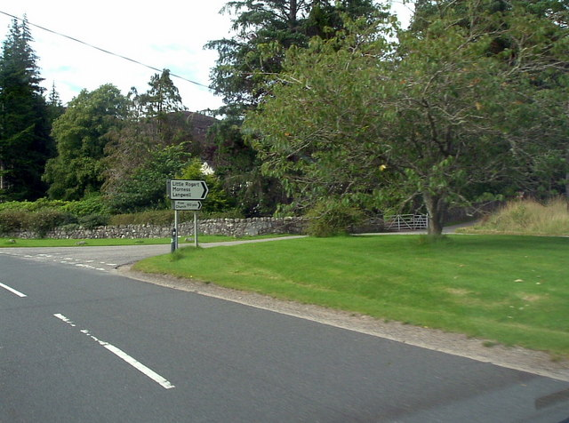 Roadsign for Little Rogart On A839